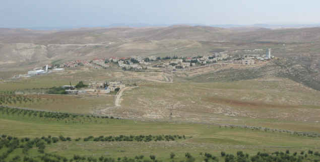 Photo taken from Herodium to the north of the town